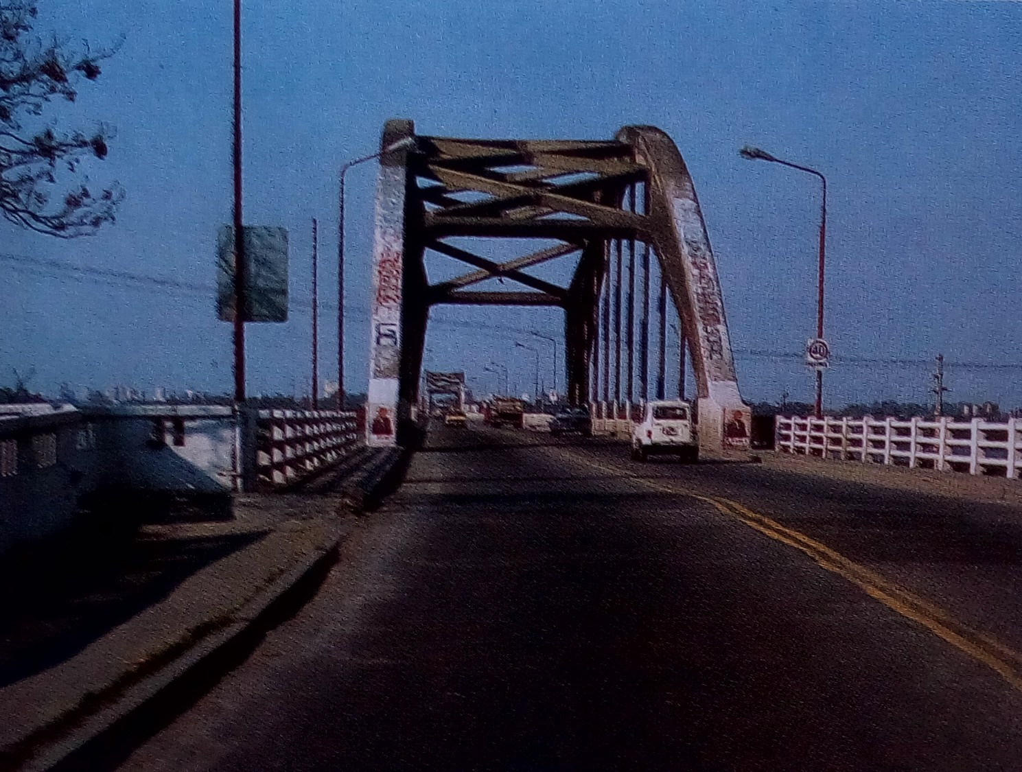 Puente Carretero Santo Tome - Santa Fe